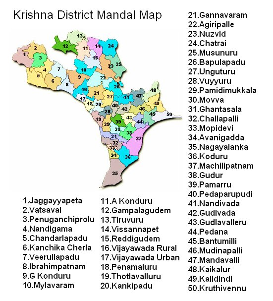 Krishna District Mandal Map